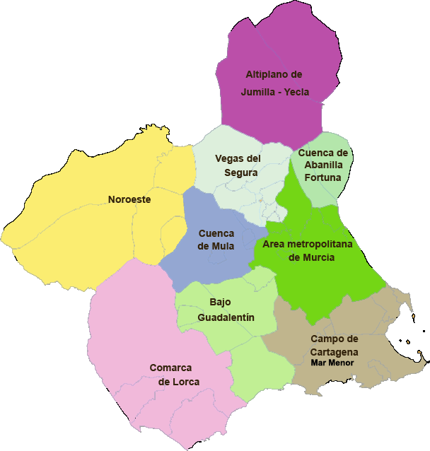 Counties division of Region of Murcia by Digital Atlas